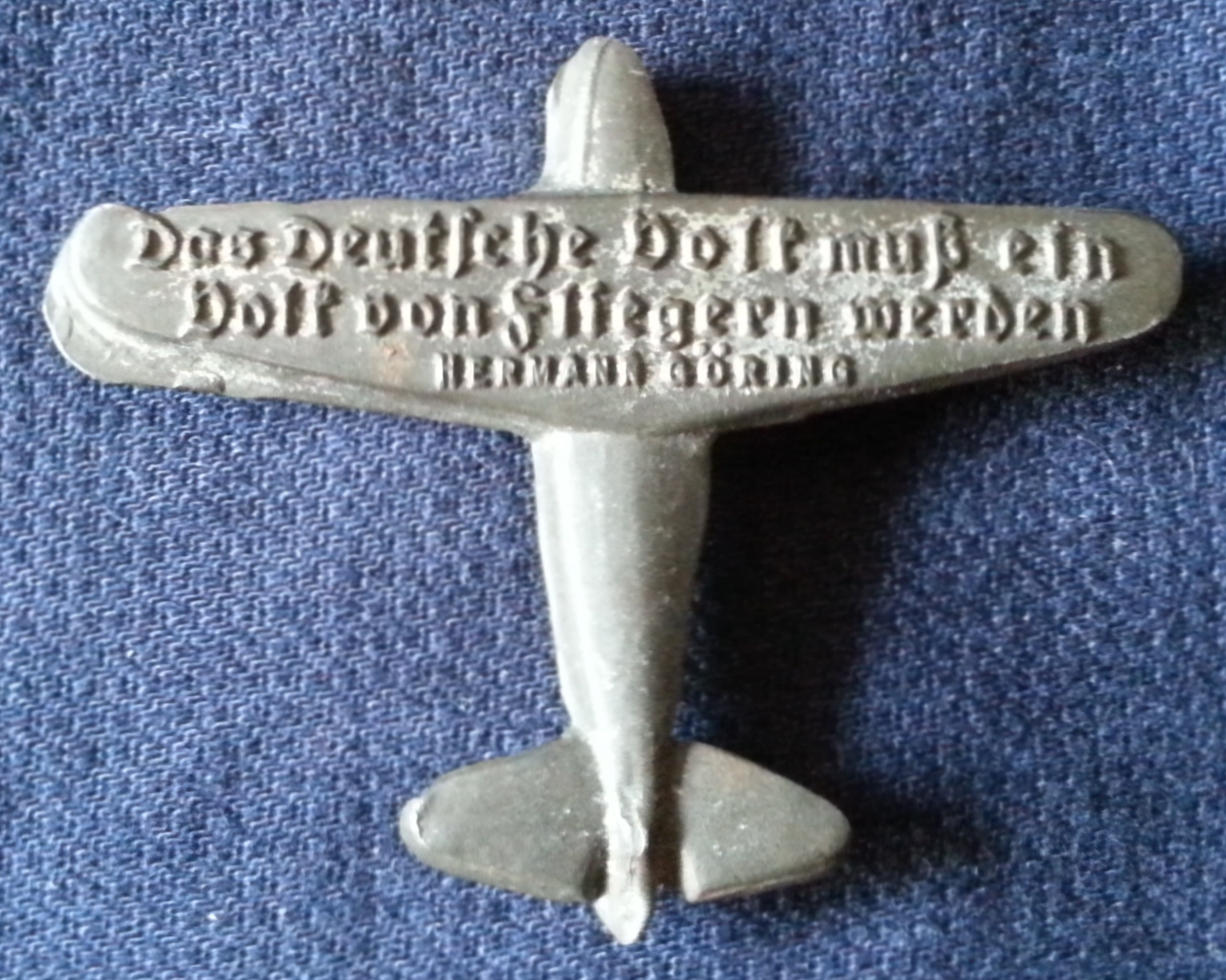 Winter Relief badge of the German Air Sports Association with Hermann Göring’s slogan “The German people must become a people of fliers”